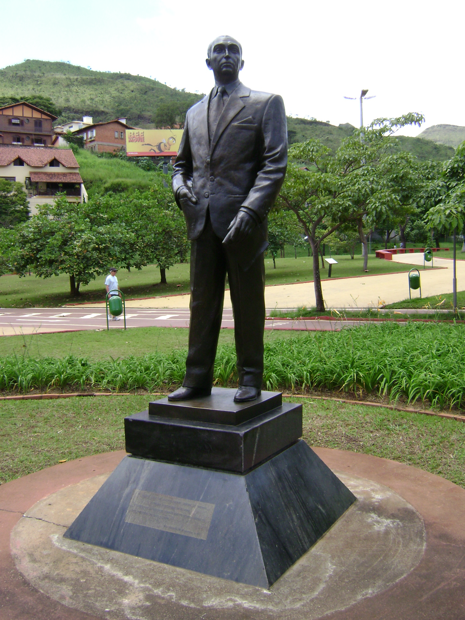 Statue of Juscelino Kubitschek, the square of the same name, in Belo Horizonte.